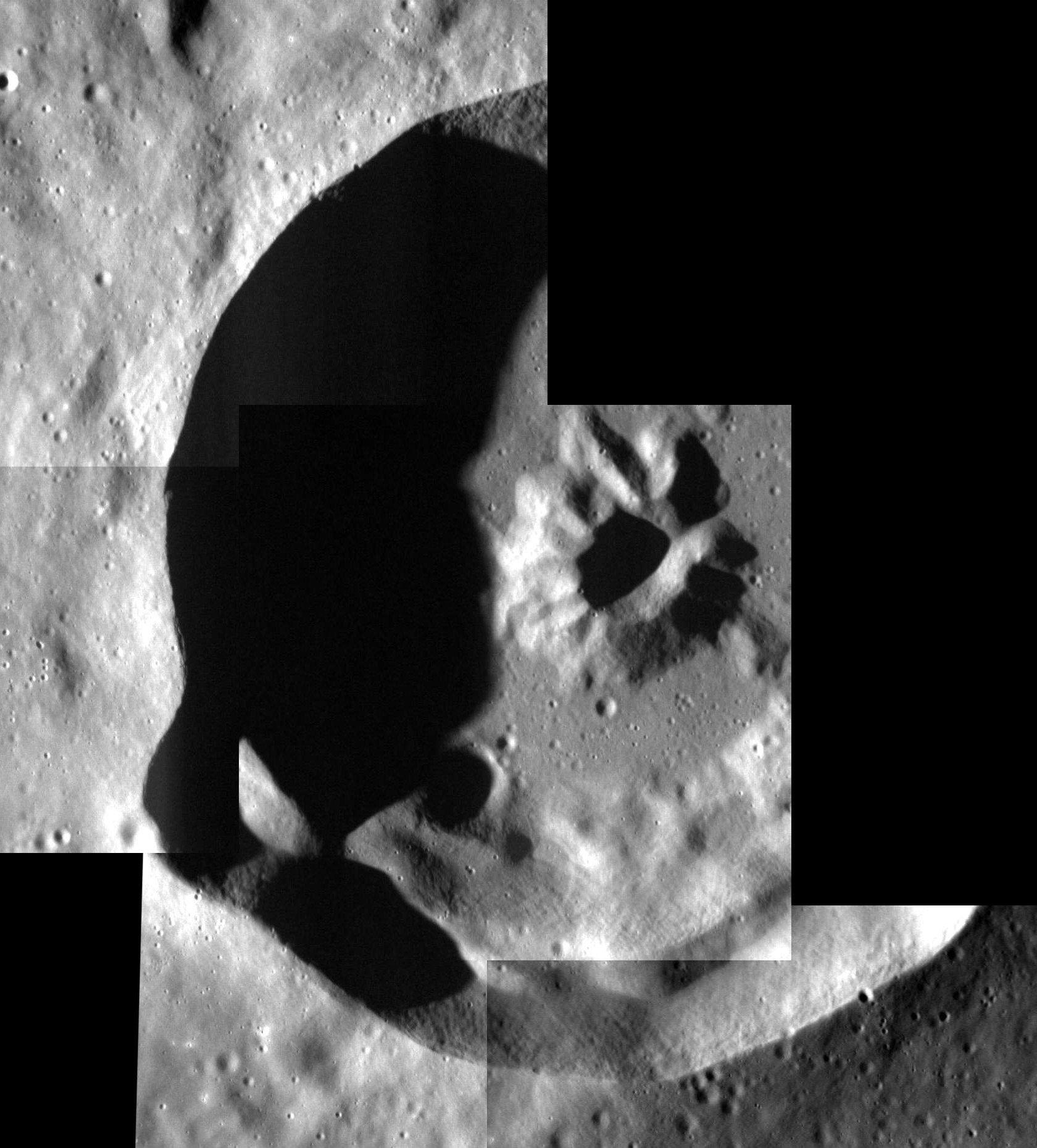 Mosaic showing most of Egonu crater on Mercury. MESSENGER Narrow Angle Camera images: EN0250017649M, EN0250017645M, EN0249988841M, EN0249988836M, EN0249988831M. Emission Angle: 1.4 Incidence Angle: 75.7 Latitude: 67.2 Longitude: 61.8 Phase Angle: 74.3